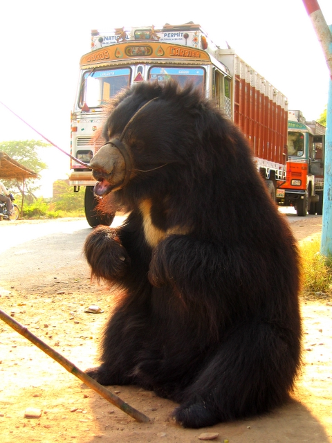 a captive Sloth Bear (Melursus ursinus) in Pushkar.